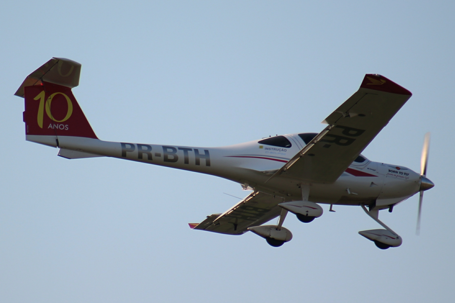 IMG_9420_Fotor